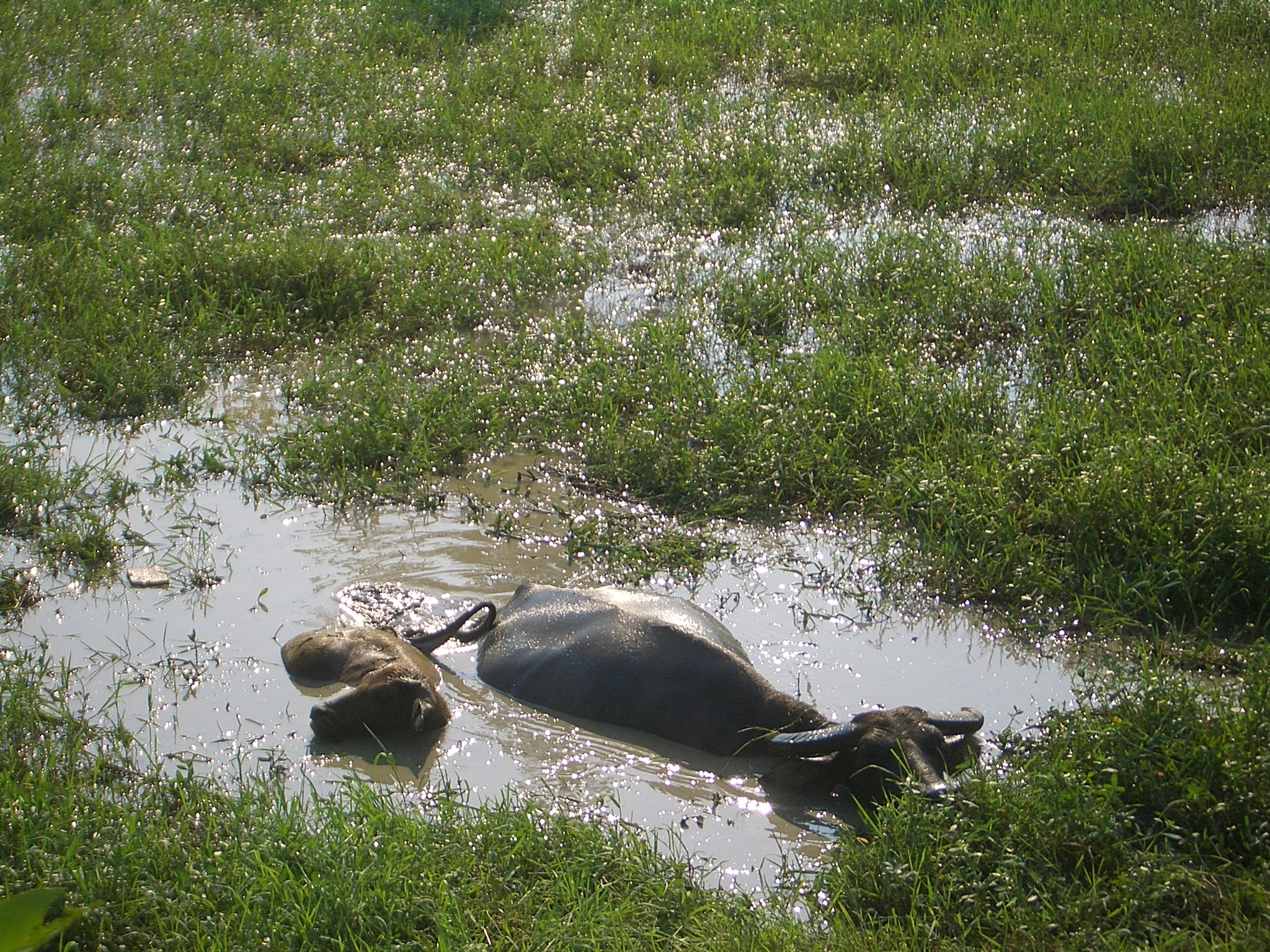 A water buffalo with a calf enjoying some water by the side of the road. Southern Jiangxia District, City of Wuhan